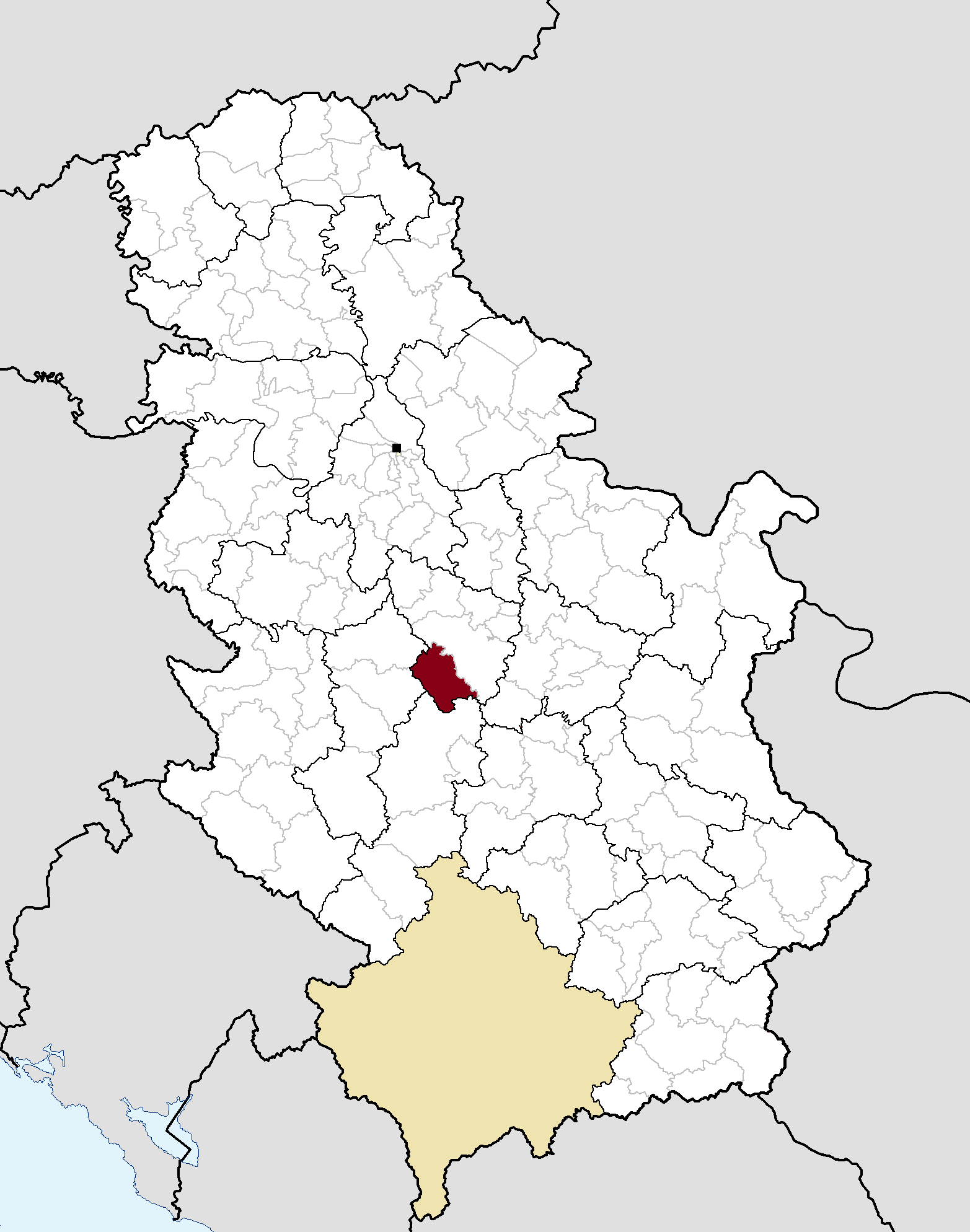 Municipal location in Serbia